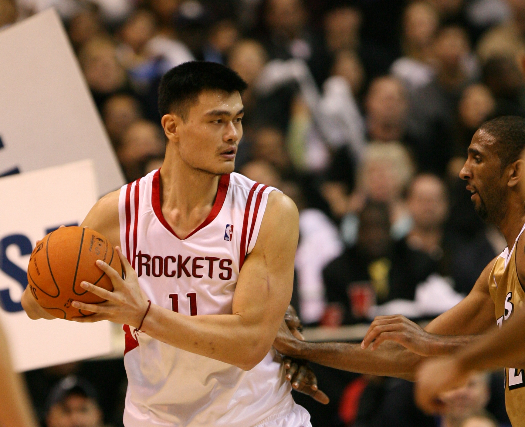 Yao Ming holding the ball on offense against the Washington Wizards